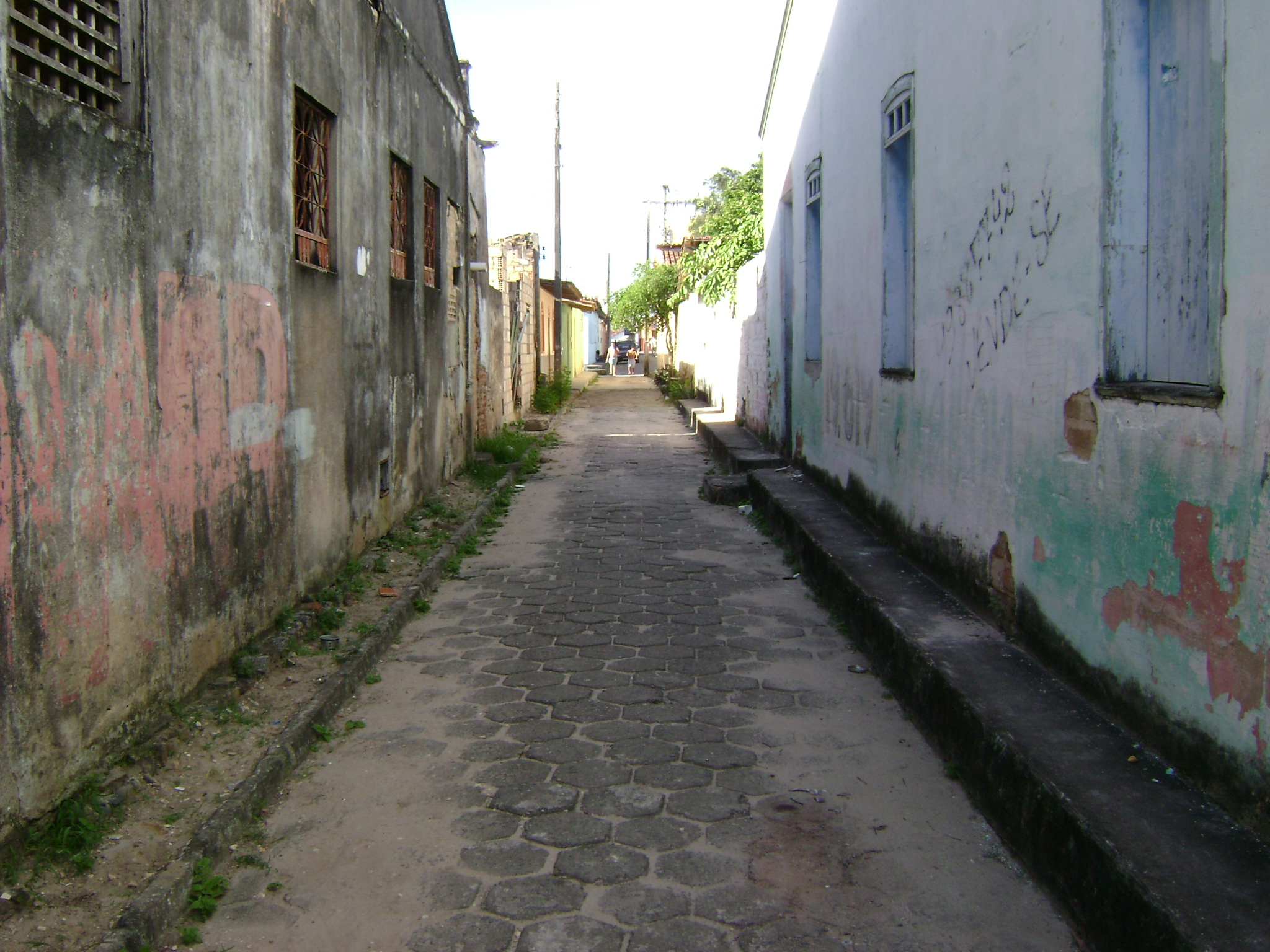 Alcobaça's street